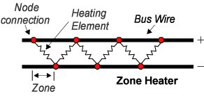 Zone-Heater